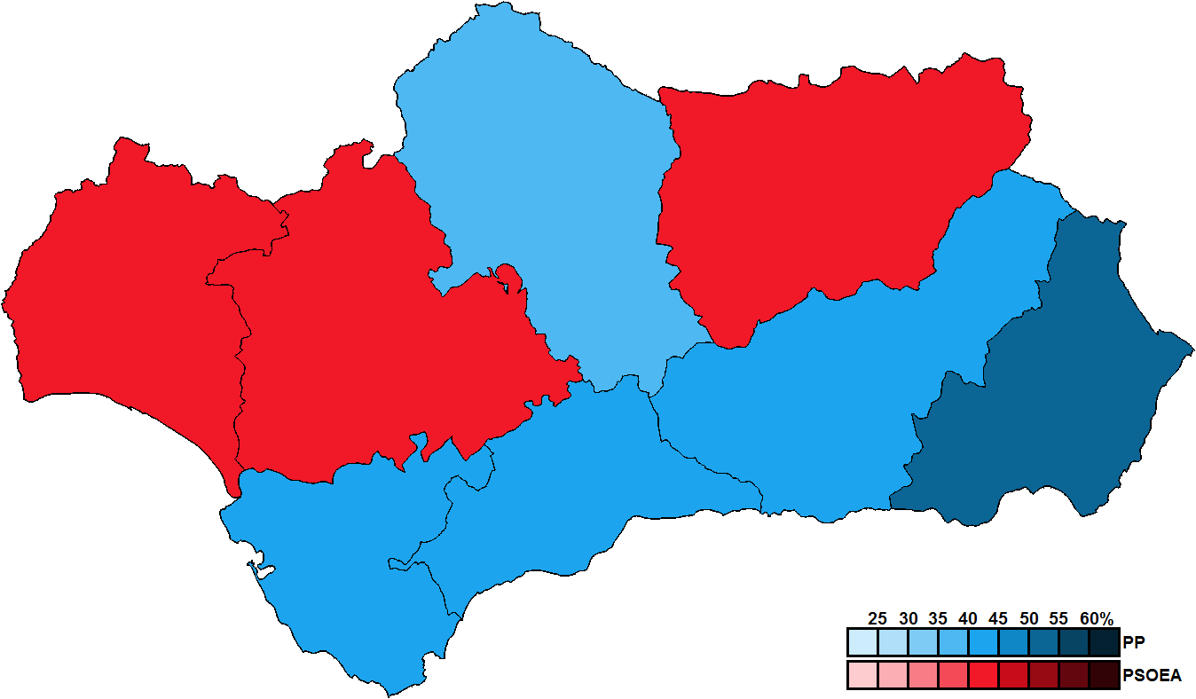 Provincial results for the 2012 Andalusian regional election.